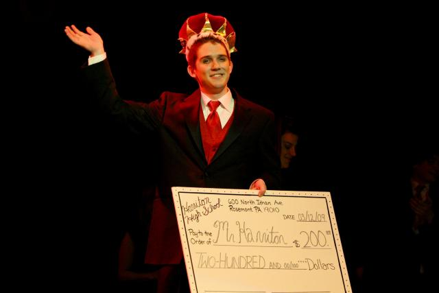 The winning contestant of the Mr. Harriton competition receives a cash prize, which he donates to a charitable cause of his choice.